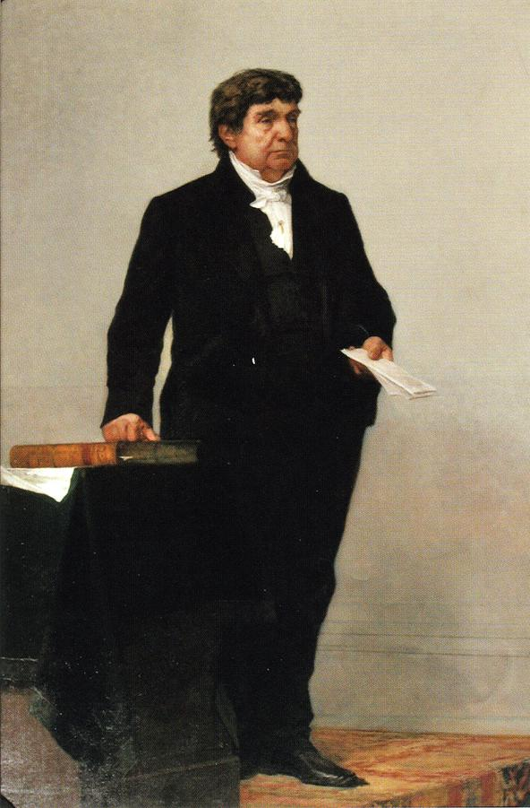 Portrait of Massachusetts judge Lemuel Shaw, Chief Justice of the Massachusetts Supreme Judicial Court, painted by Boston painter William Morris Hunt. From the collection of the Essex Superior Court.